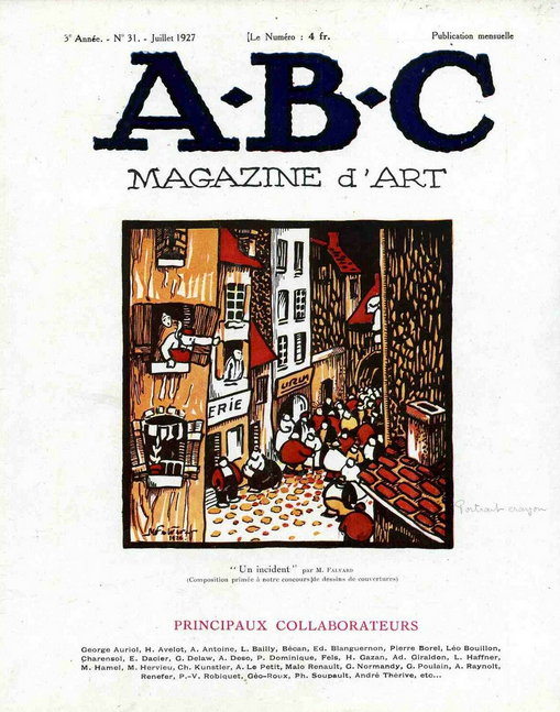 ABC Magazine d'Art, cover of a magazine printed in Paris.